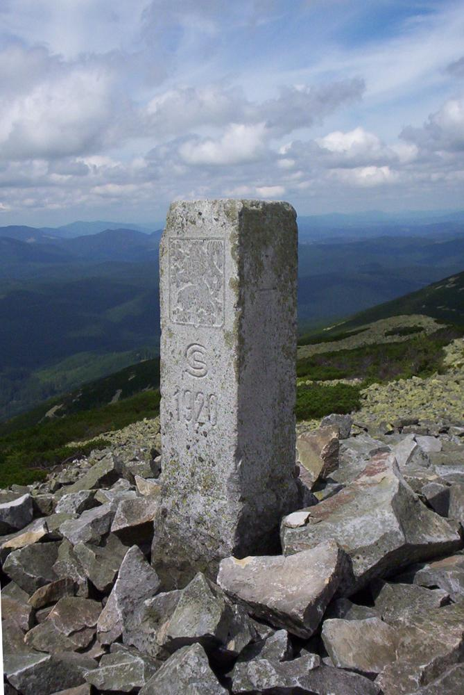 Popadia in Gorgany. Polish-Czechoslovak border (before II World War).